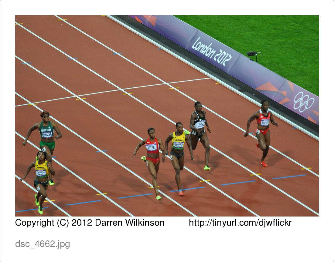 Women's 100m final